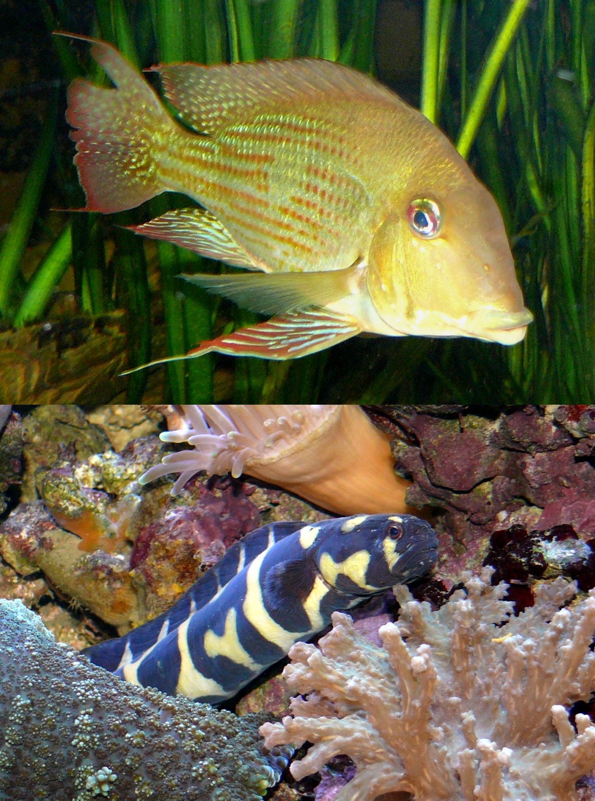 Geophagus sp. and Pholidichthys leucotaenia